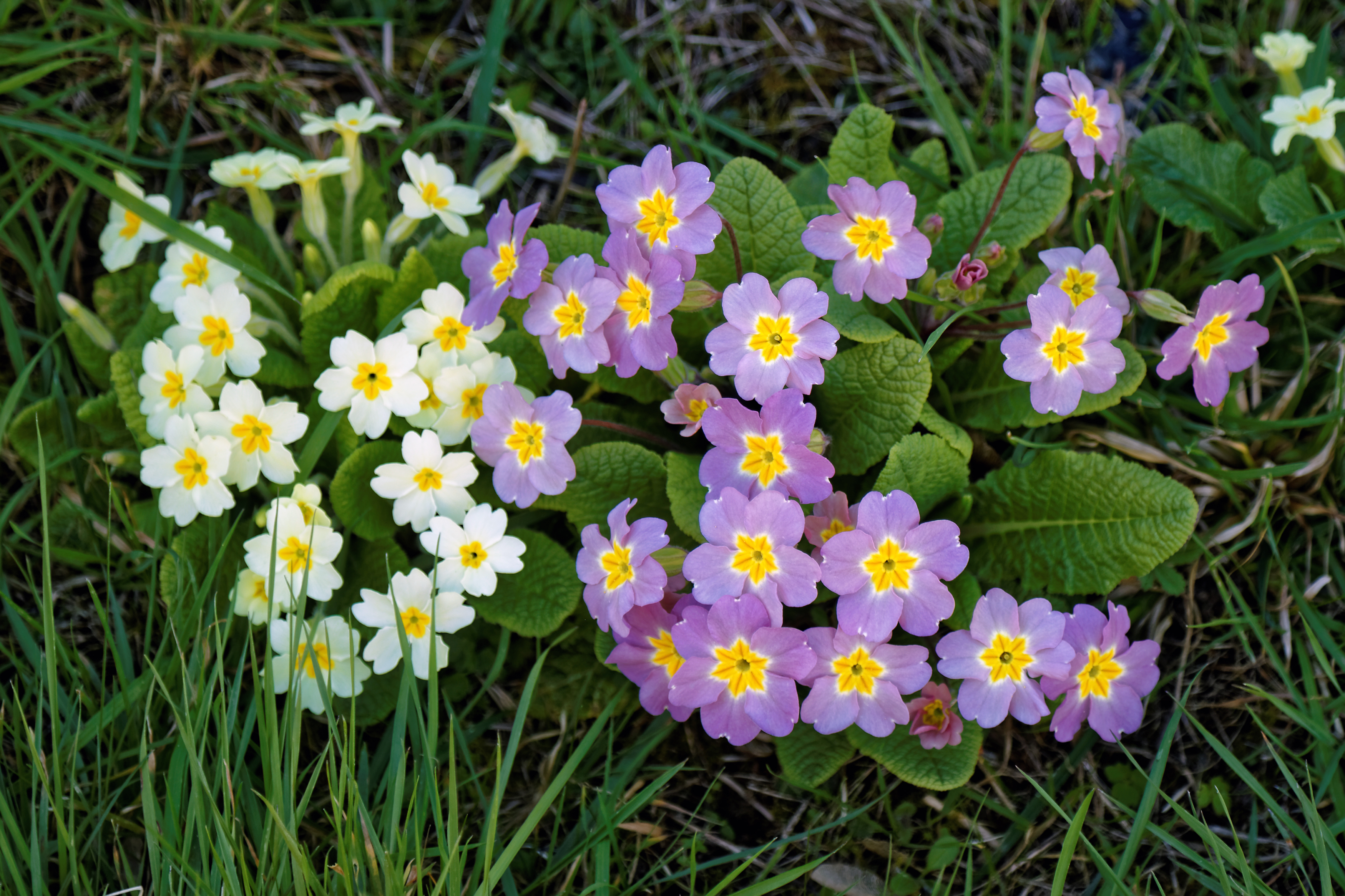 White and pale purple Primula (primrose) cultivars in the churchyard of the Grade I listed St Mary's Church, in Great Canfield village, Essex, England.Camera: Canon EOS 6D with Canon EF 24-105mm F4L IS USM lens.Software: large RAW file lens-corrected, optimized and downsized with DxO OpticsPro 11 Elite, Viewpoint 2, and Adobe Photoshop CS2.